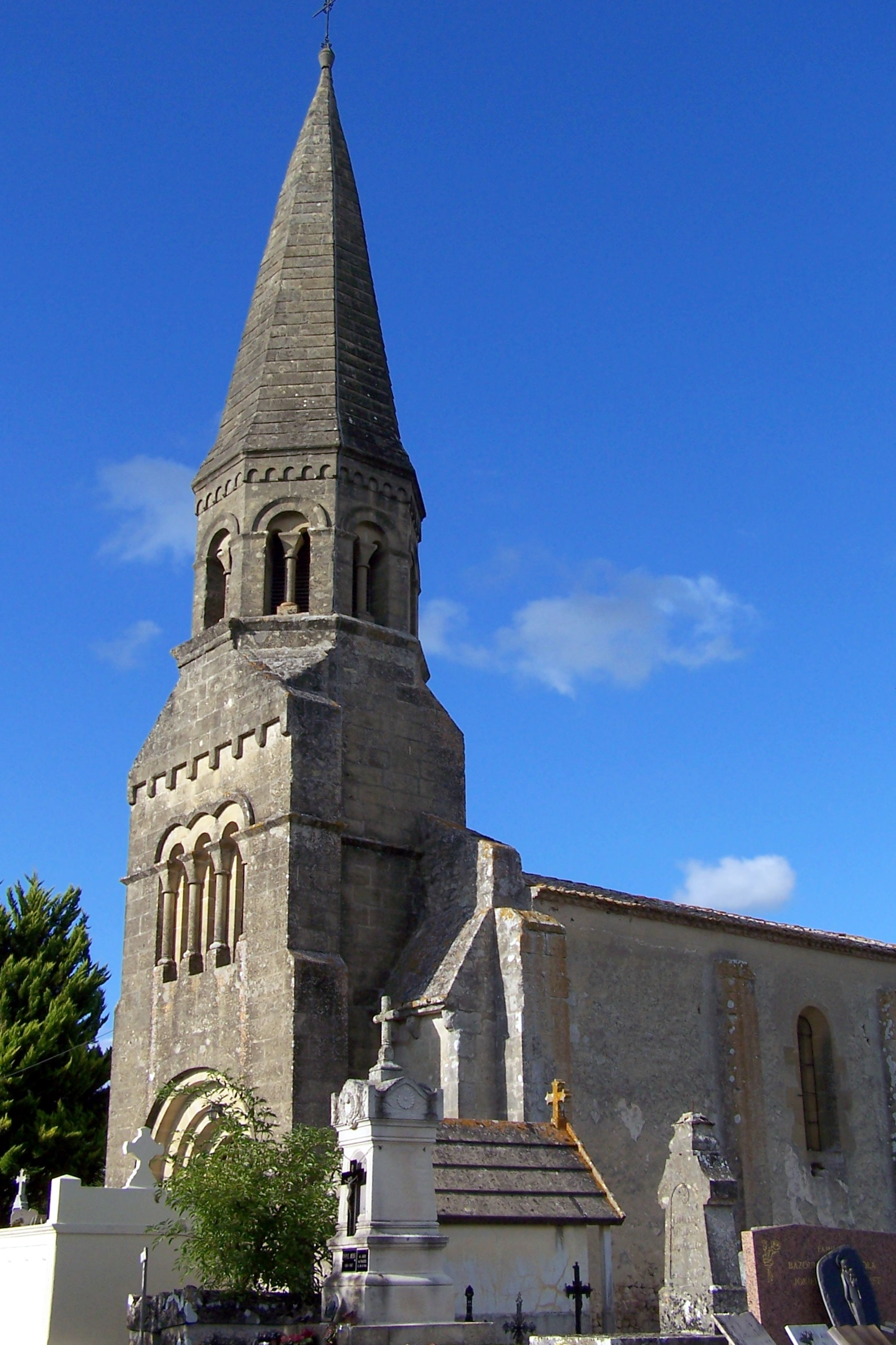 Church Saint-Cibard of Coutures (Gironde, France)